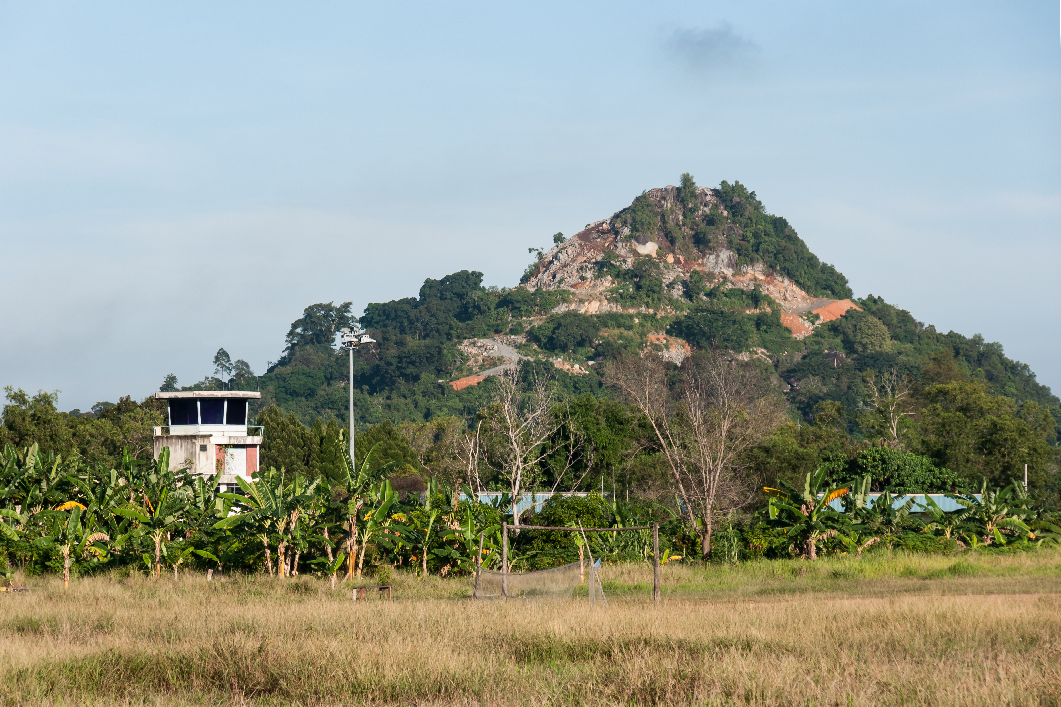 Old Airfield of Tawau, Sabah, Malaysia. In the background the so called Marker Hill, a landmark to guide the captain during landing